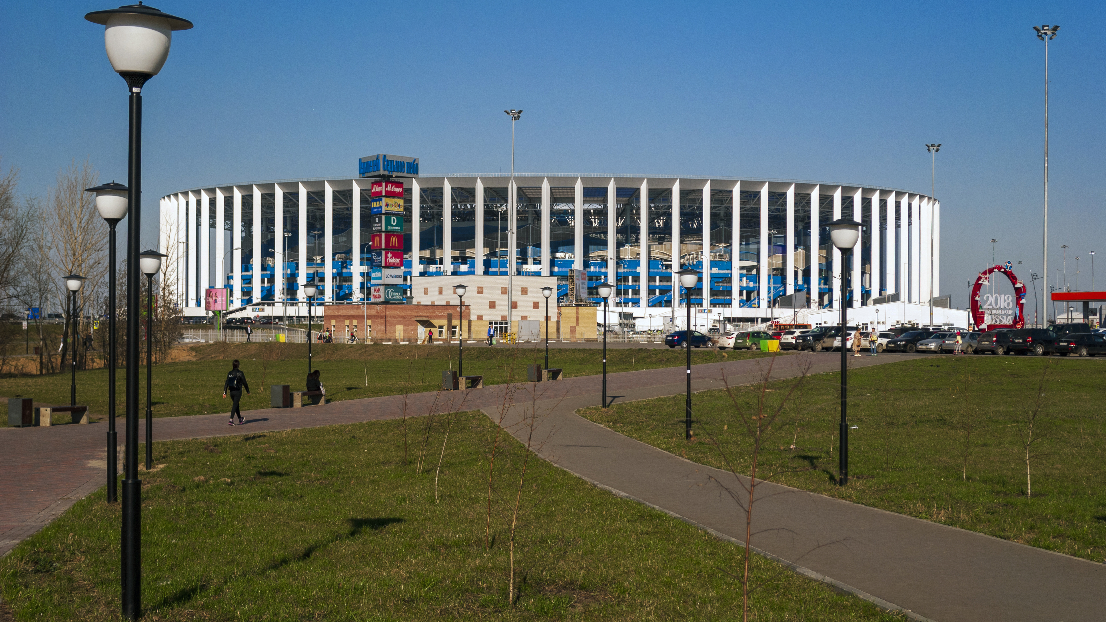 Nizhny Novgorod Stadium